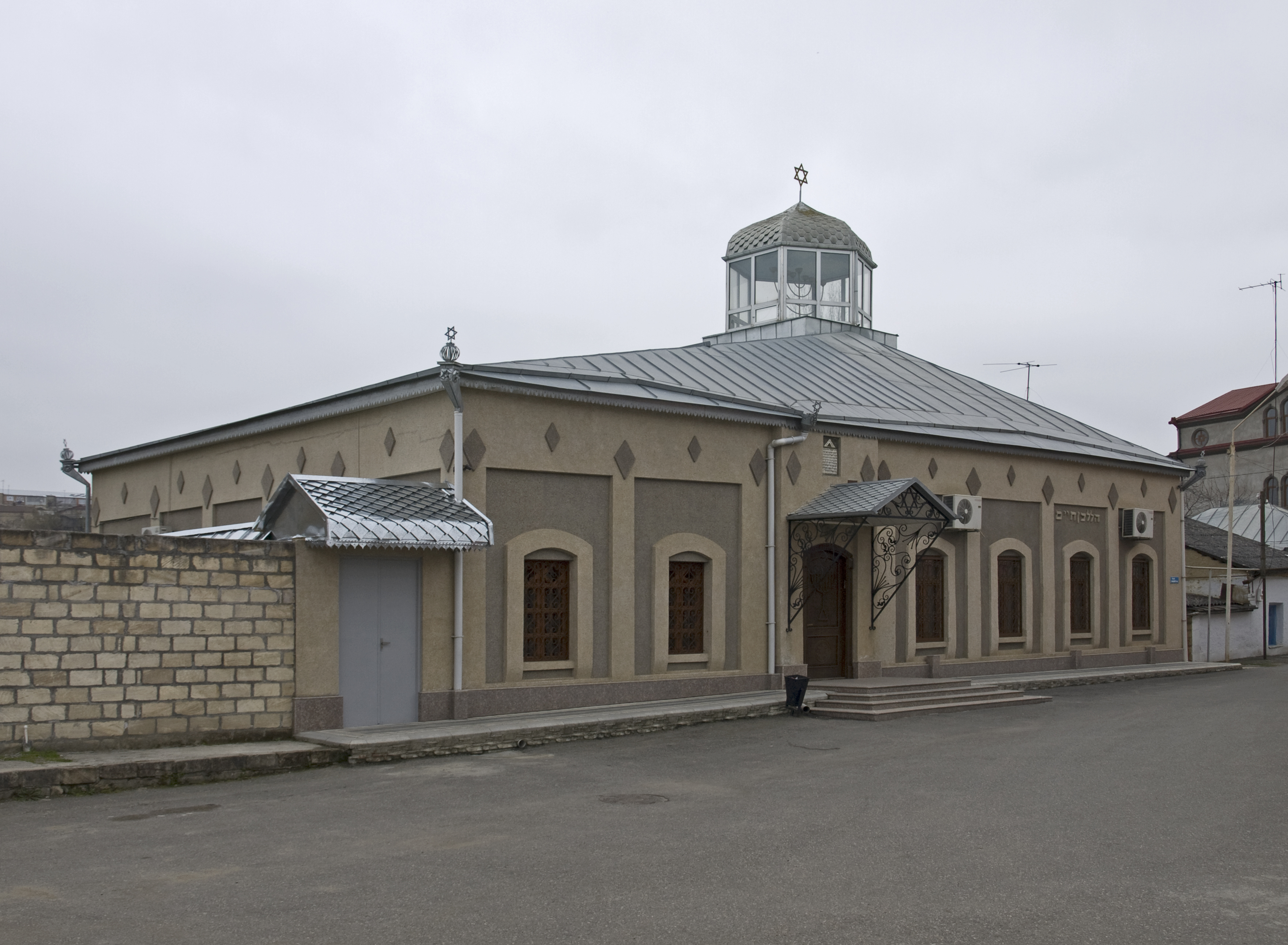 Hilaki Synagogue, Krasnaya Sloboda